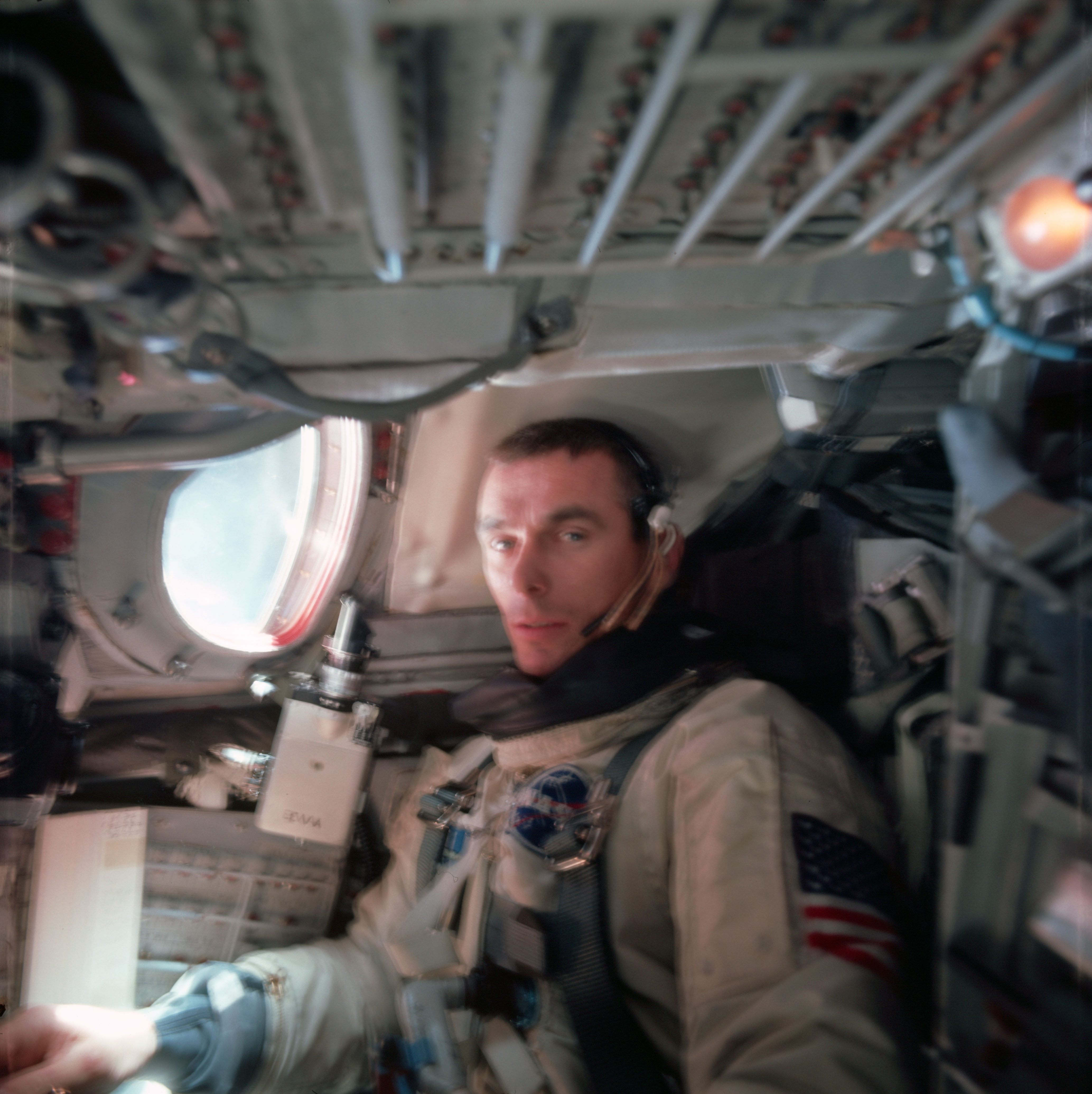 Photograph inside Gemini IX, Lieutenant Commander Eugene A. Cernan taken during the Gemini IX mission during orbit no. 34 on June 05,1966. GET time was 53:02 / GMT time was 18:42. Original magazine number was GEM09-D-38082 taken with a Hasselblad camera. Film type was Kodak Ektachrome MS (S.O. -217). A black and white Master of this image exists. Its photo number is S66-38024.